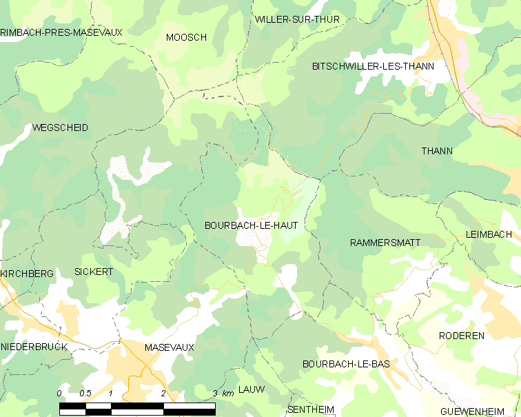 Map of French municipality